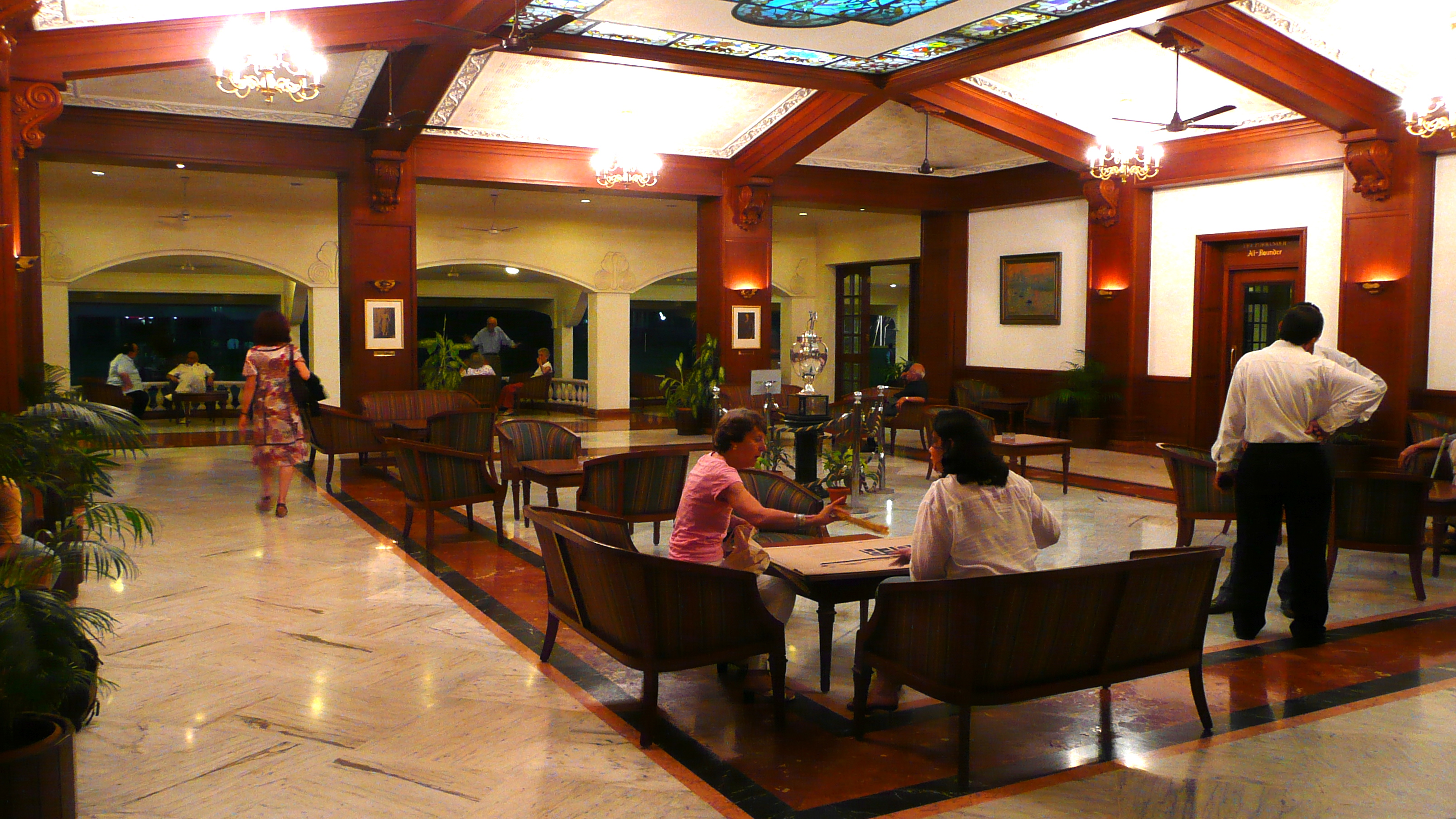 CCI Mumbai - Main entrance: lobby of the club house with replica of original Ranji Trophy as centerpiece.